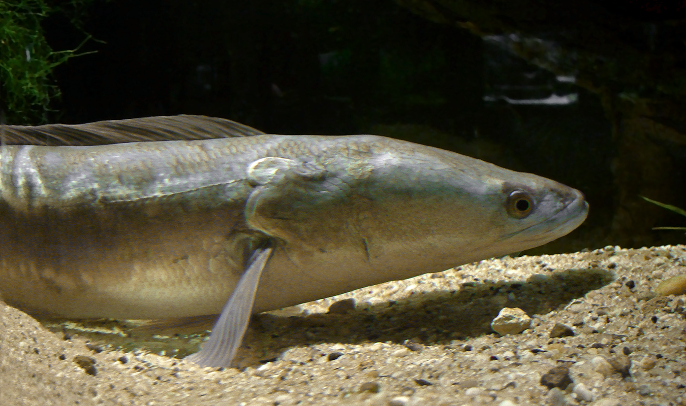 Giant snakehead